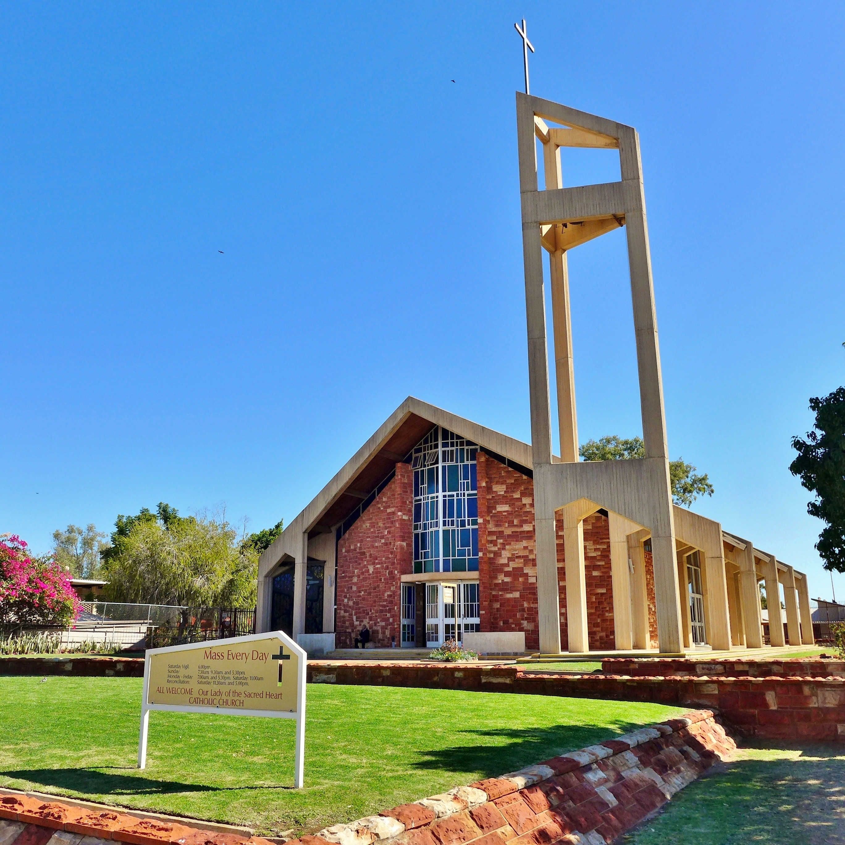 Our Lady of the Sacred Heart Roman Catholic church, Alice Springs, Australia.